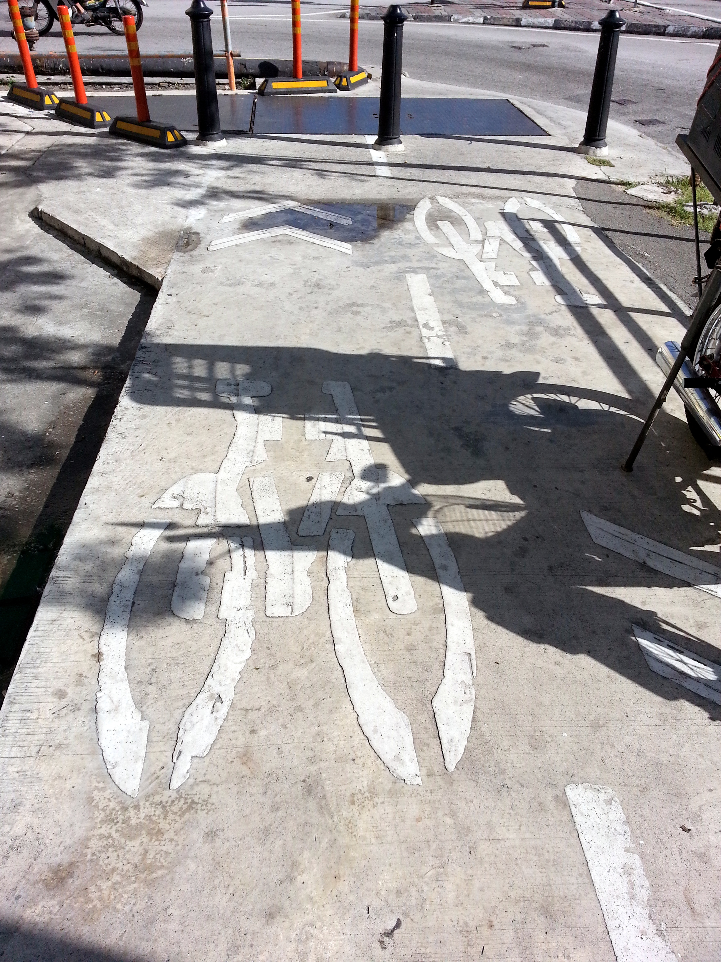 A marked cycling lane in George Town, Penang